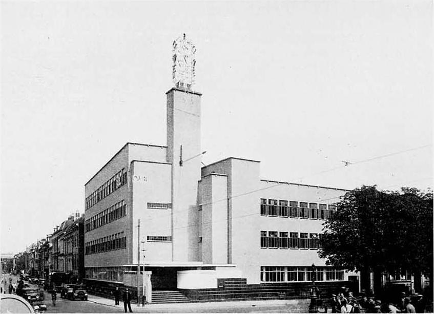 Jan Wils (architect). OLVEH Building, Piet Heijnplein/Kortenaerkade, The Hague. 1930-1932 (demolished 1969).